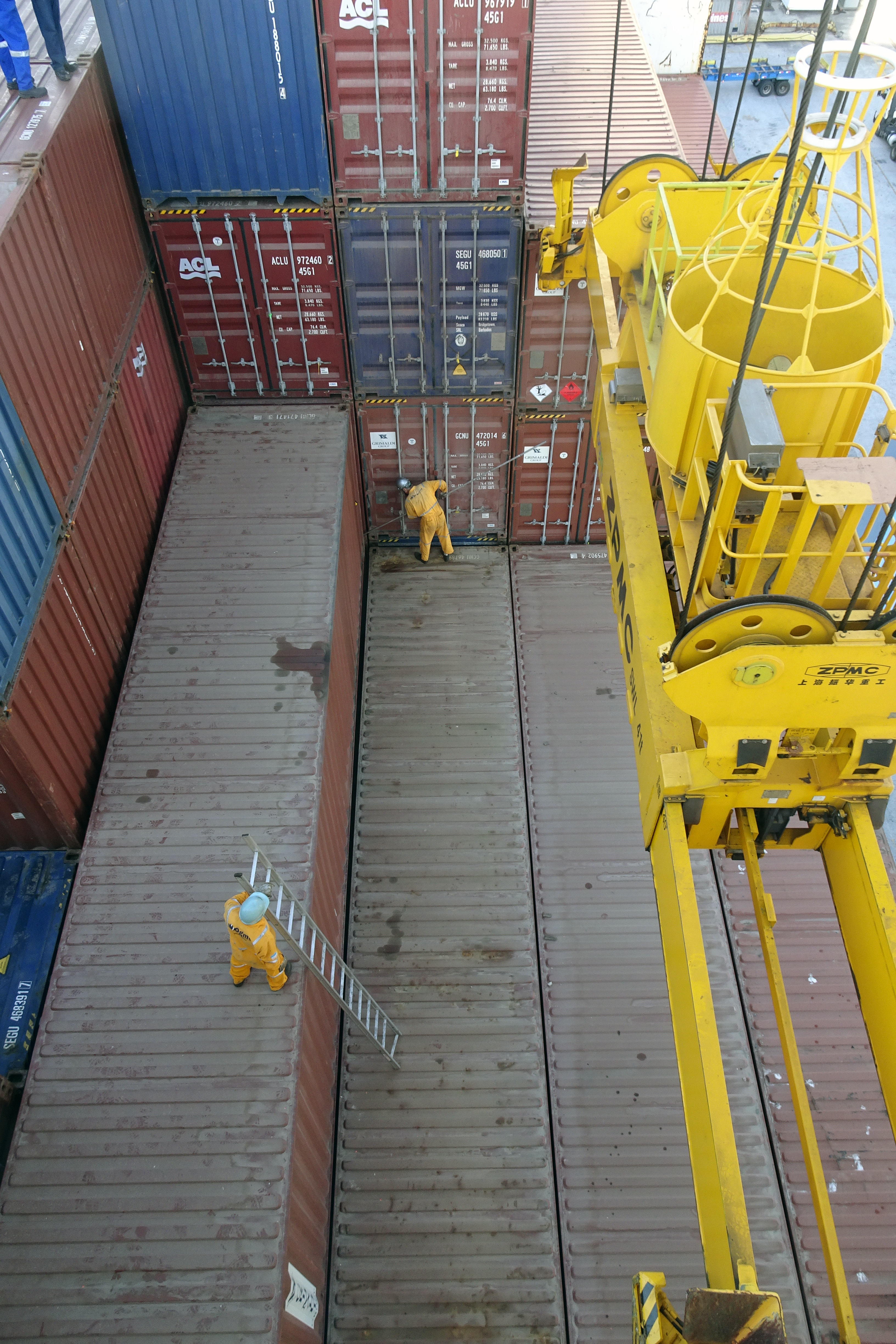 Unloading containers in the port of Vitória in Brazil